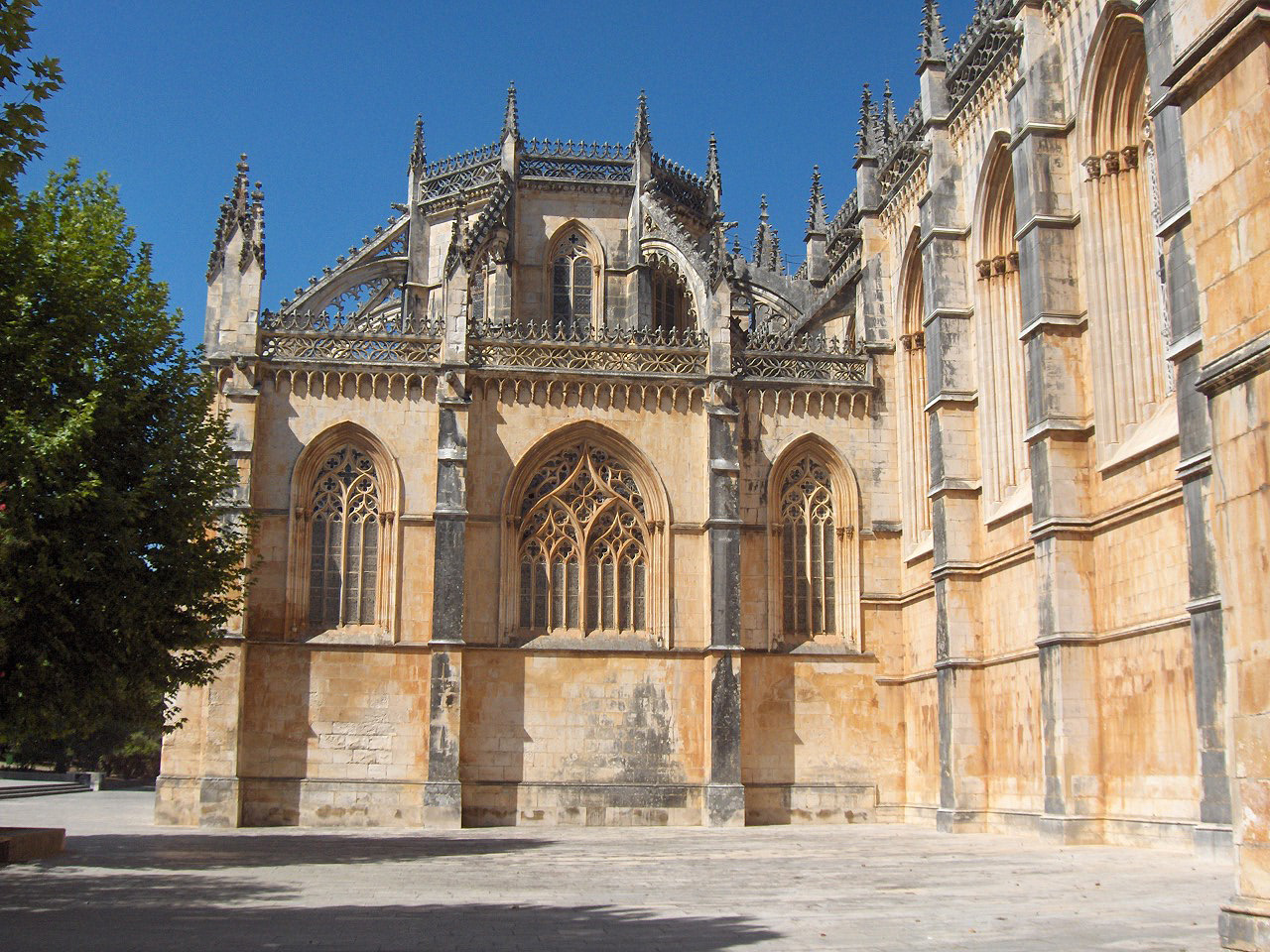 Founder's Chapel; windows in flamboyant style; Monastery of Batalha, Portugal